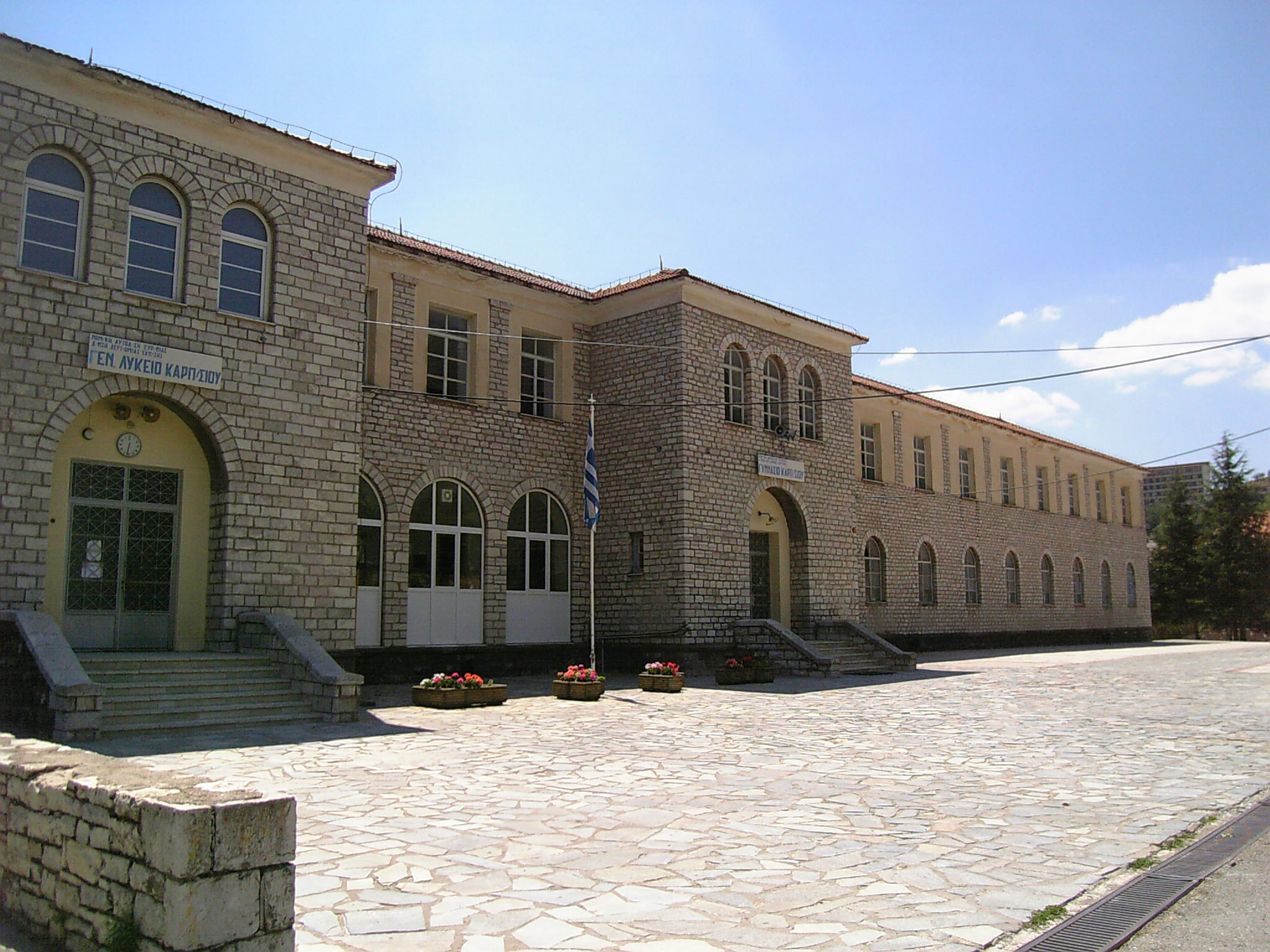 The old high school of Karpenisi, more than 100 years old